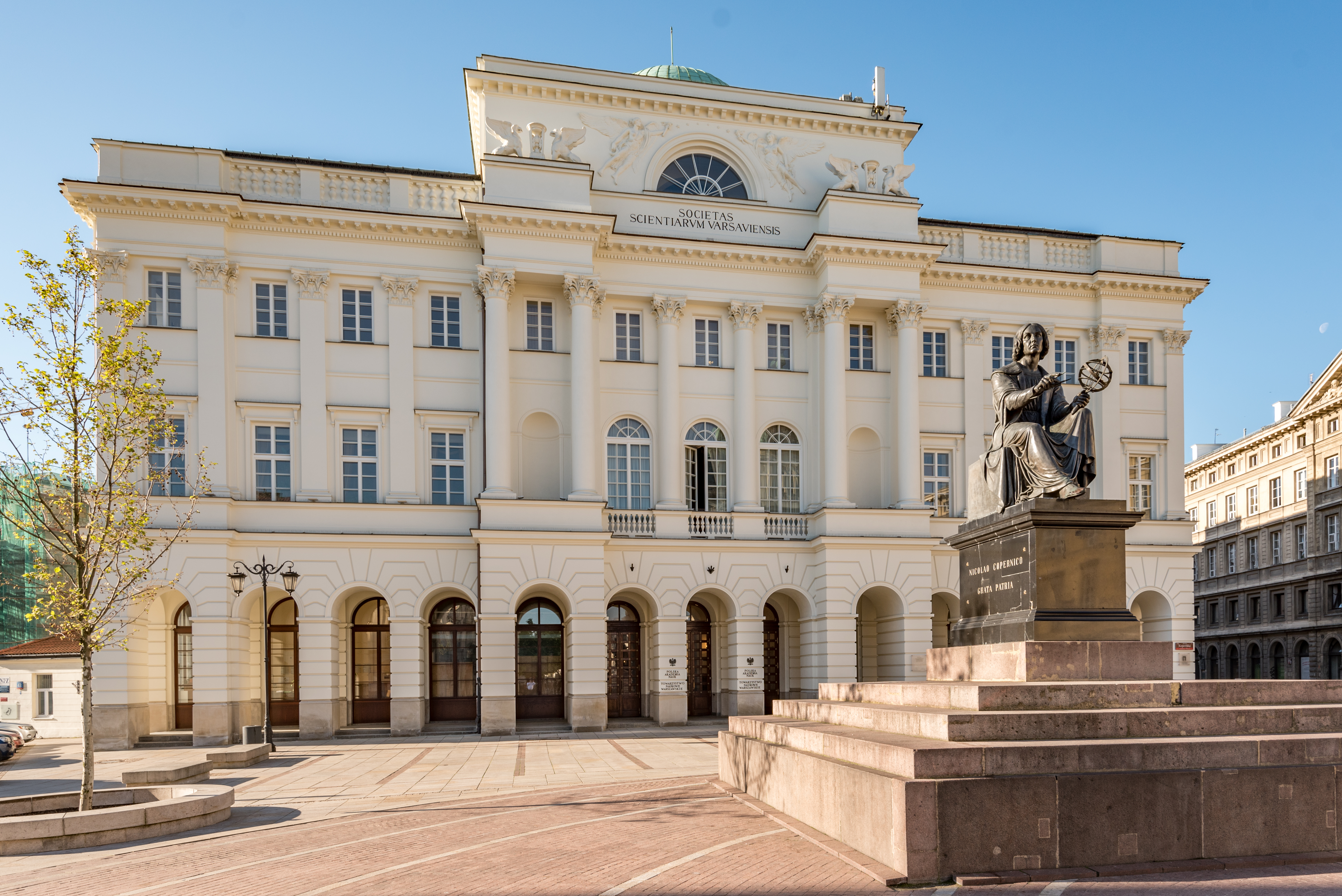 Warszawa, ul. Nowy Świat 72-74